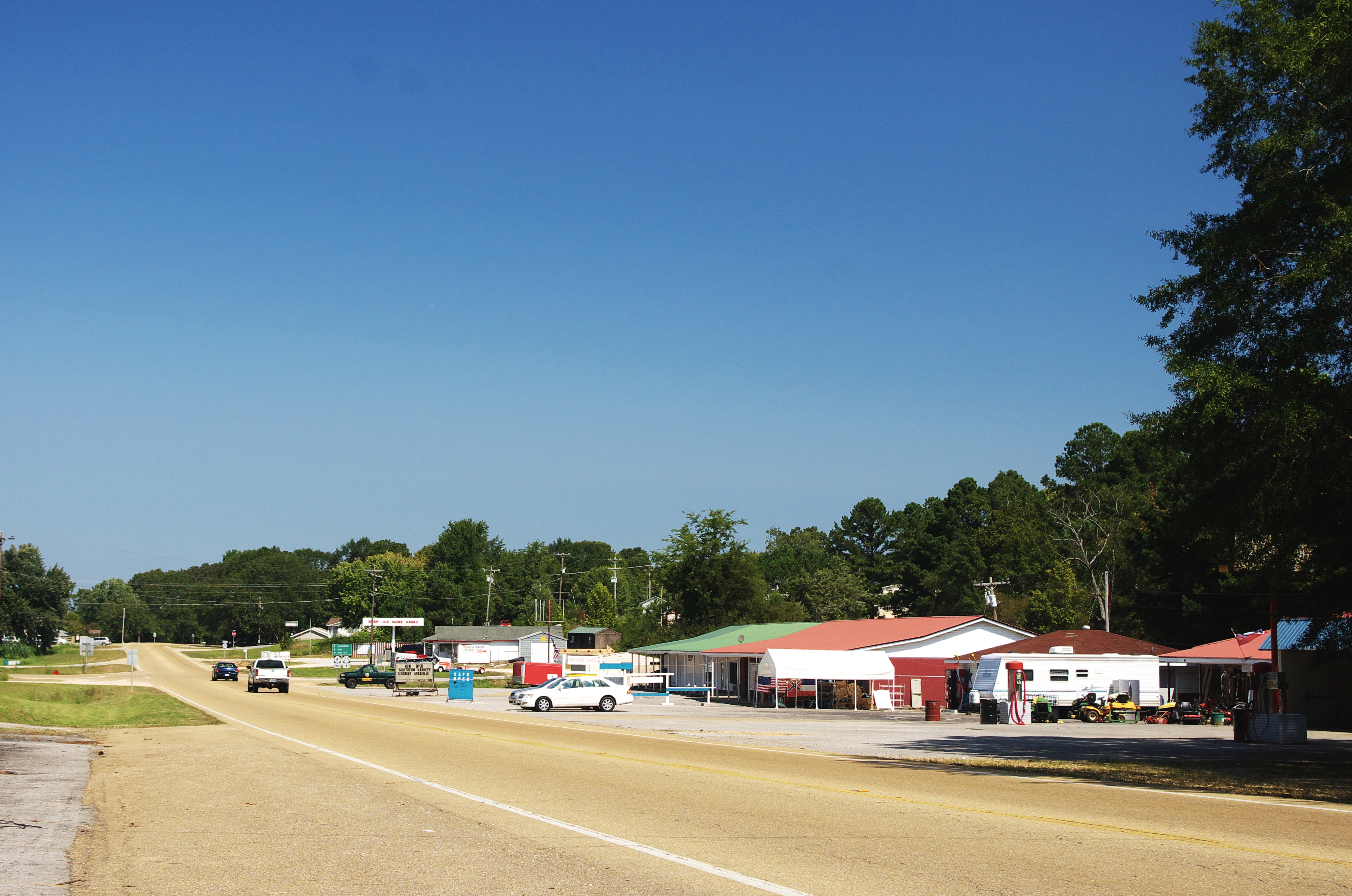 Businesses along Mississippi Highway 25 in Dennis, Mississippi, United States.